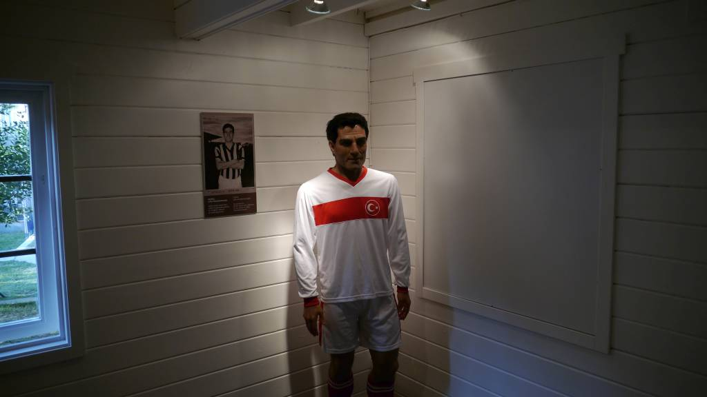 A view from the exhibition "Lefter" by the Museum of the Princes' Islands